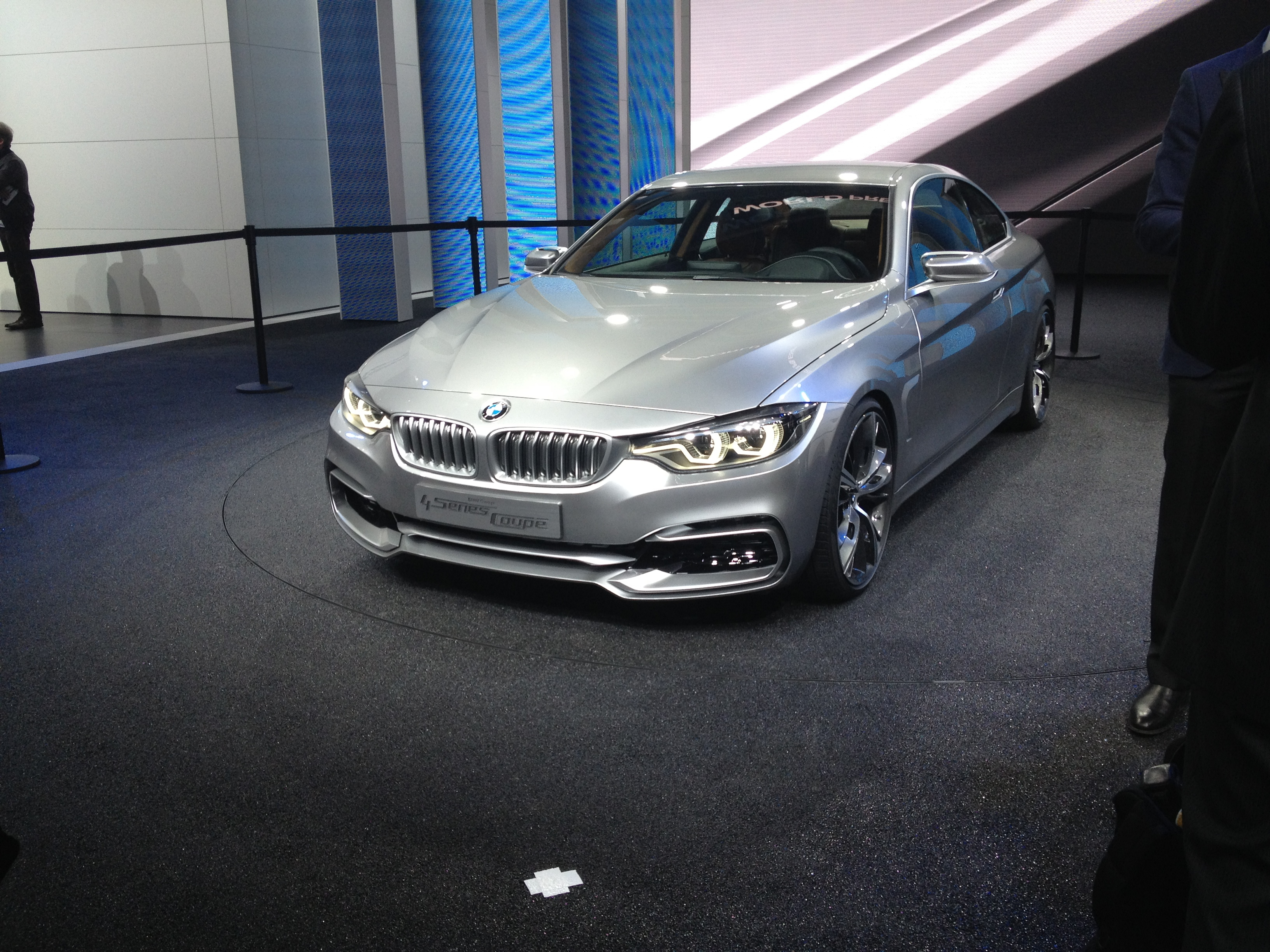 2013 North American International Auto Show Detroit, Michigan